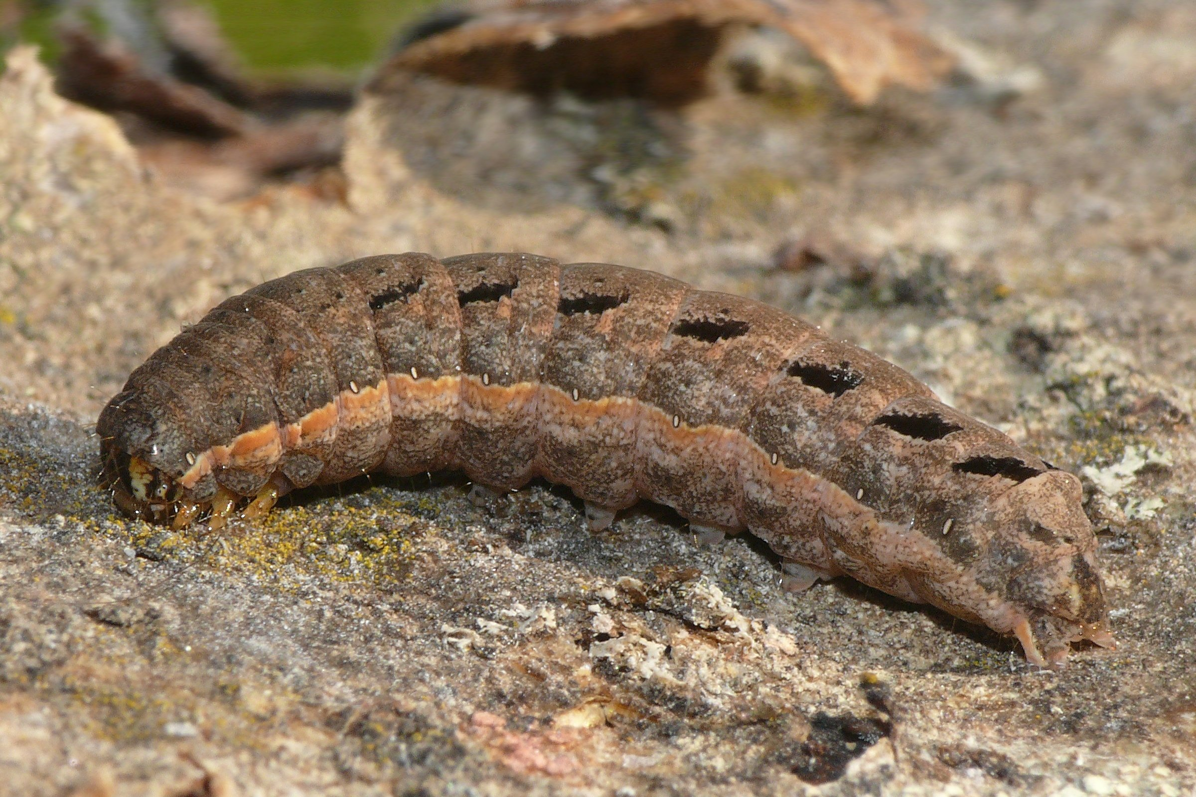 Caterpillar of Setaceous Hebrew character (Xestia c-nigrum) after hibernation in spring. District of Erding, Bavaria, Germany